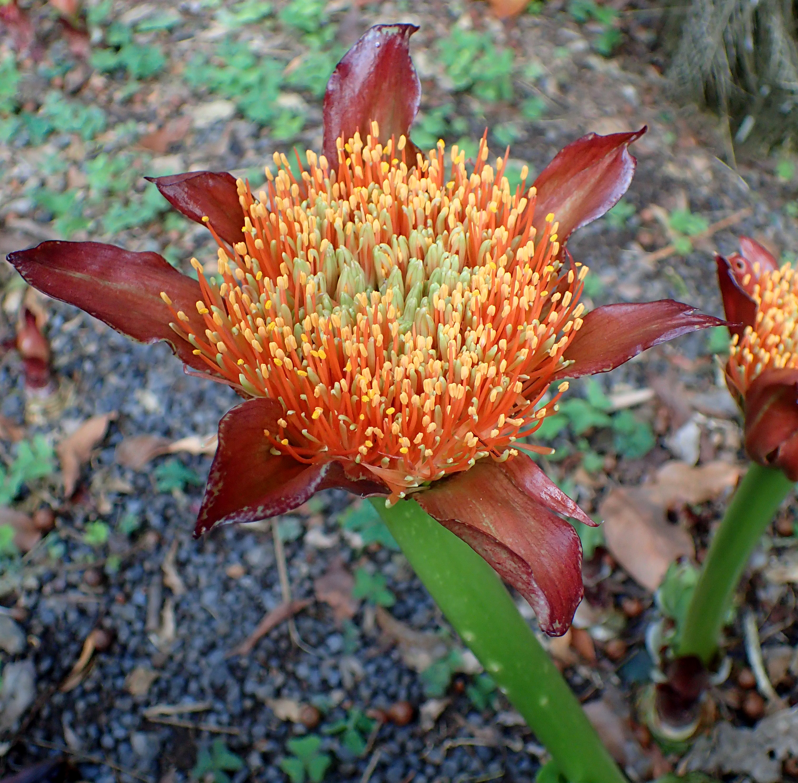 Scadoxus puniceus in Jardín de Aclimatación de la Orotava